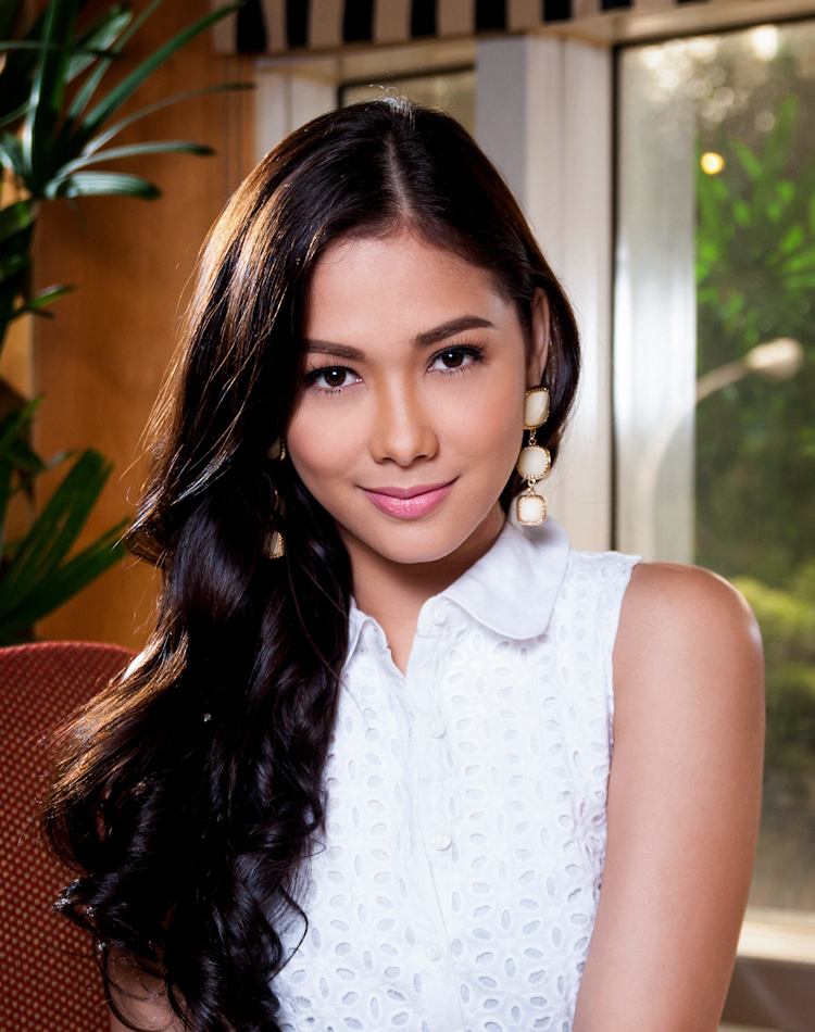 Maja Salvador photographed by Glenn Orion